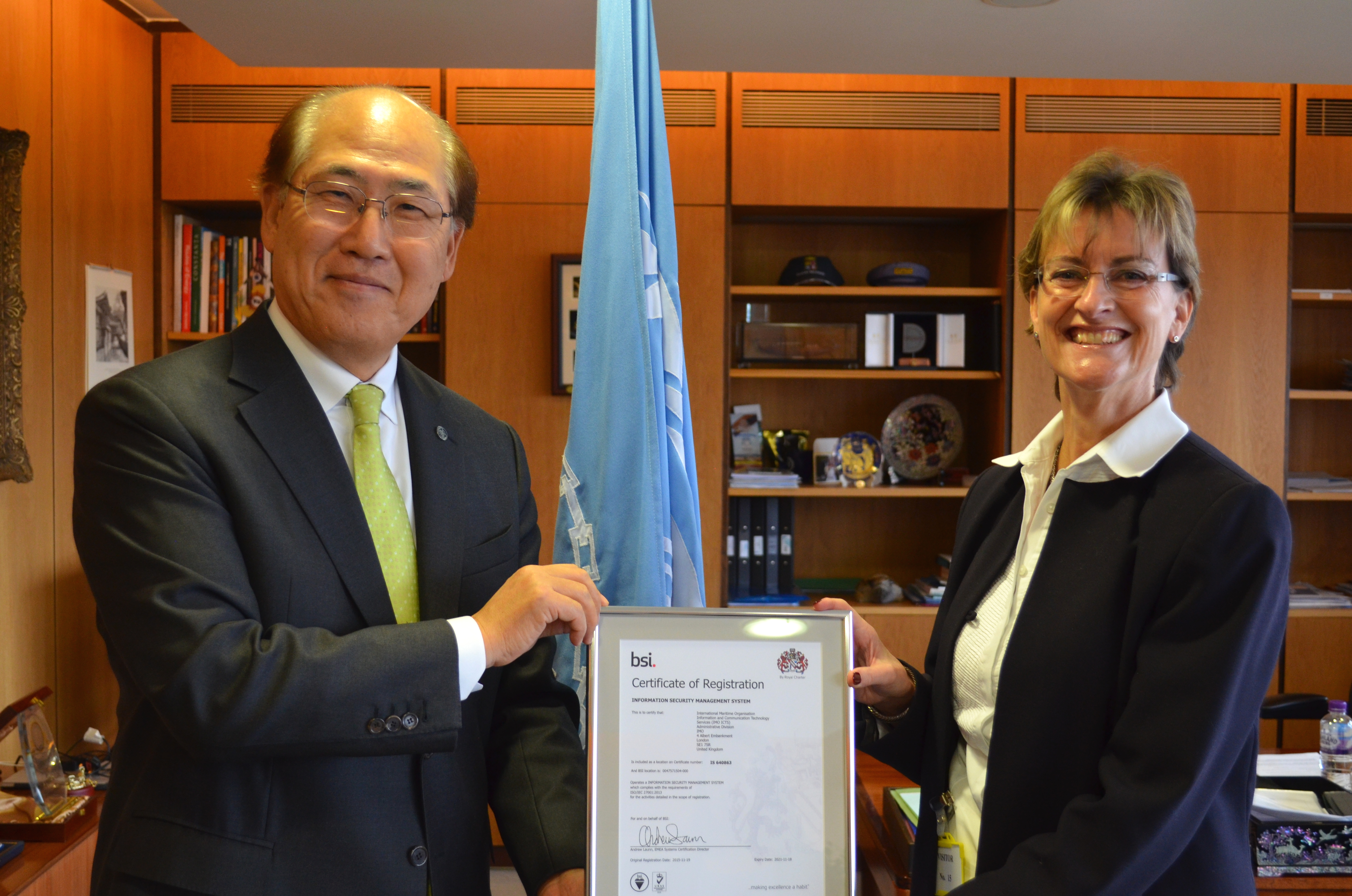 Ms Anne Scorey, UK and Ireland Managing Director for The British Standards Institution (BSI) presents the ISO:IEC 27001:2013 standard certificate for IMO to IMO Secretary-General Kitack Lim on 29 November 2018. This follows the re-certification audit to the ISO:IEC 27001:2013 standard of the IMO Information and Communication Technology Services, Administrative Division. The re-certification audit took place at IMO HQ from 5 to 6 September 2018. This audit was successful and confirmed a re-certification of IMO Information Security Management to ISO 27001 standard.